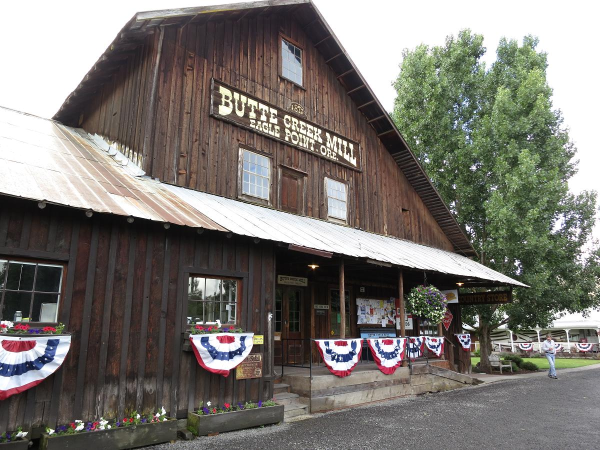 Built circa 1872 under the name of Snowy Butte mill, what is now called the Butte Creek Mill is the only grist mill in Oregon still grinding flour, using its original French buhr stones quarried near Paris over 140 years ago.